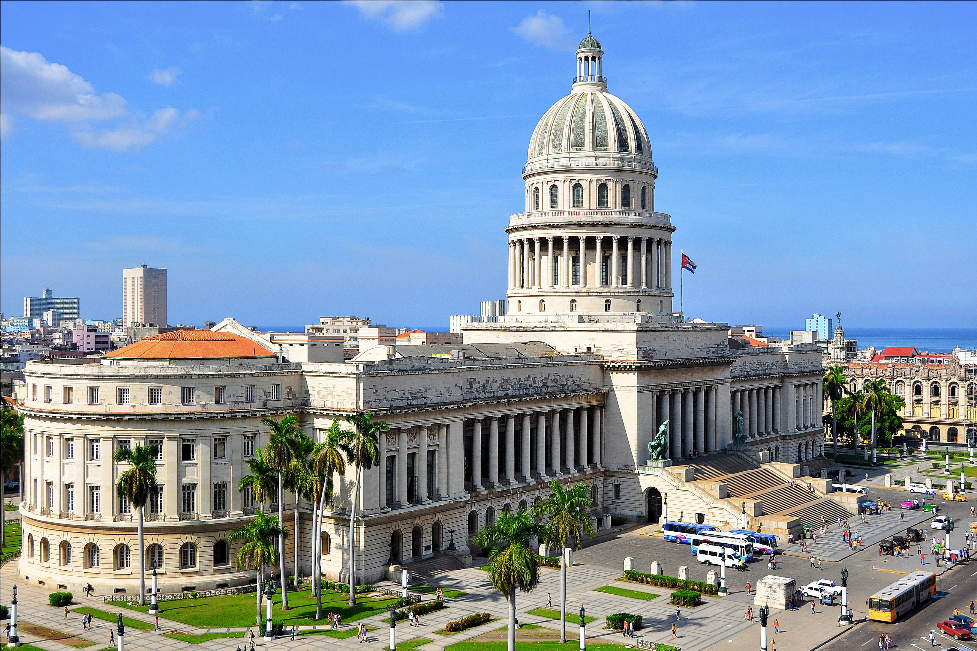 The Cuba State Capitol (El Capitolio) in Havana. The photo is taken from a nearby rooftop.